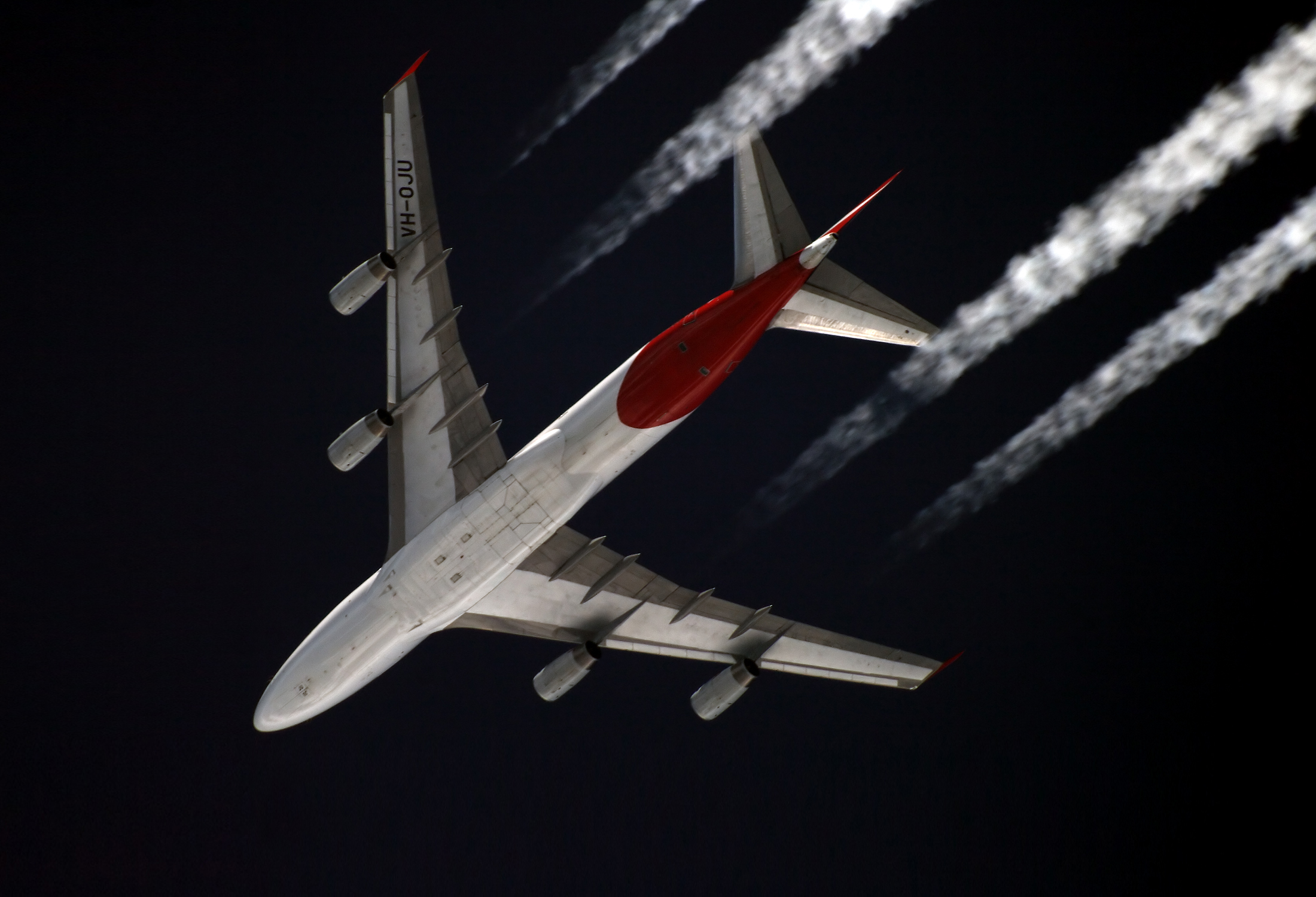 A Qantas Boeing 747-400 flying at approximately 11,000 metres in revised color scheme viewed from the ground at Starbeyevo in Moscow. Almost no difference except for lack of a golden stripe between red and white colors. The white clouds are contrails, condensed water vapour made by the exhaust of aircraft engines. f. 400D + 1200mm telescope + 2x Barlow lens.